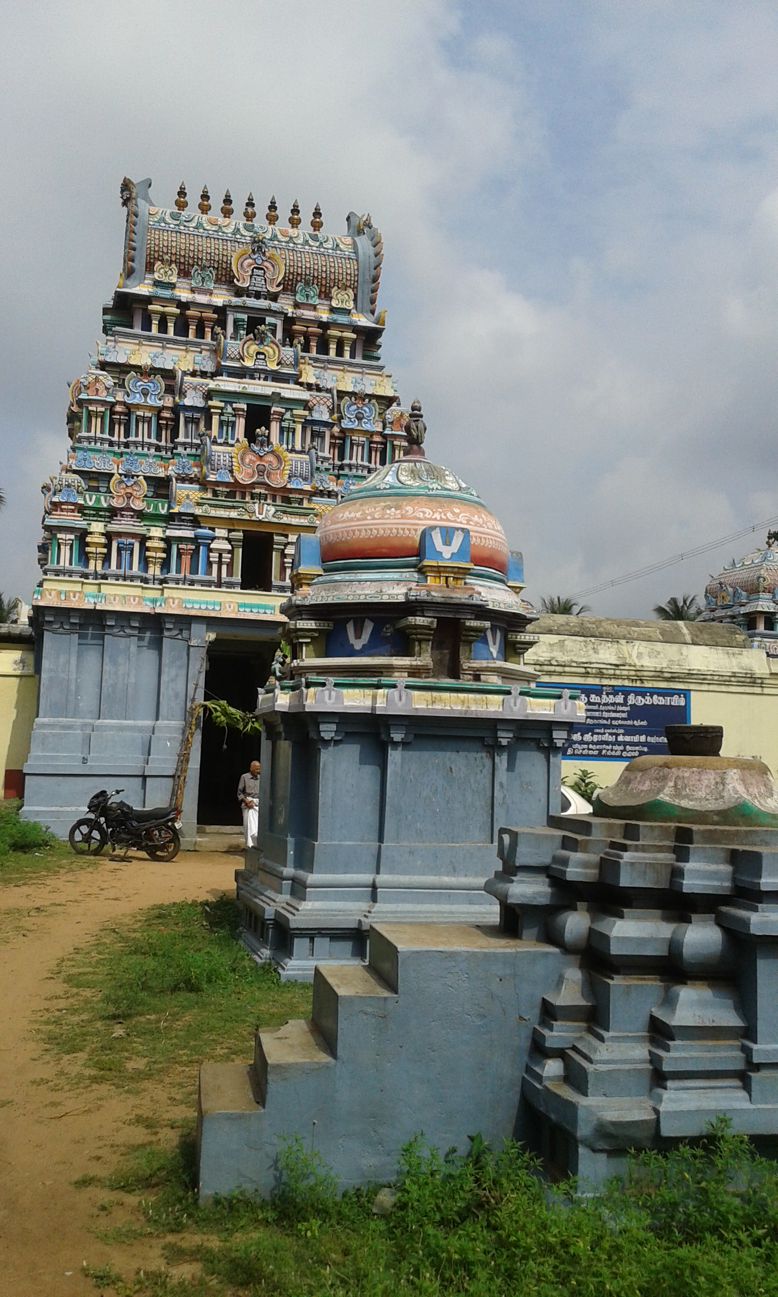 Arimeya Vinnagaram - Kuamadukoothan